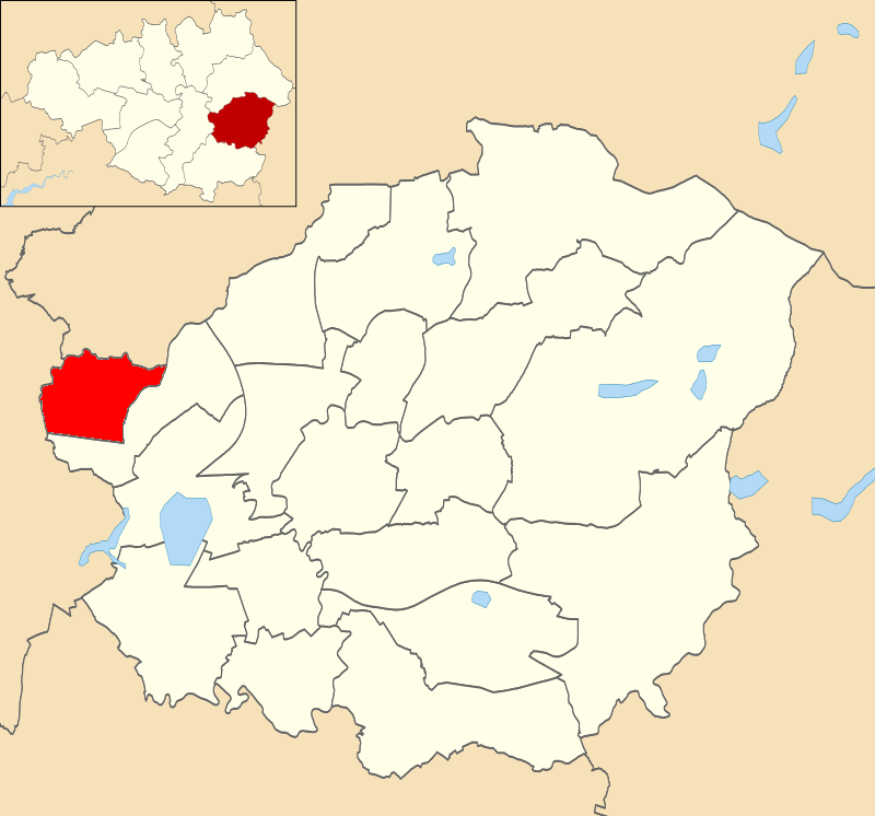 Map showing location of Droylsden West Ward within Tameside Metropolitan Borough Council.